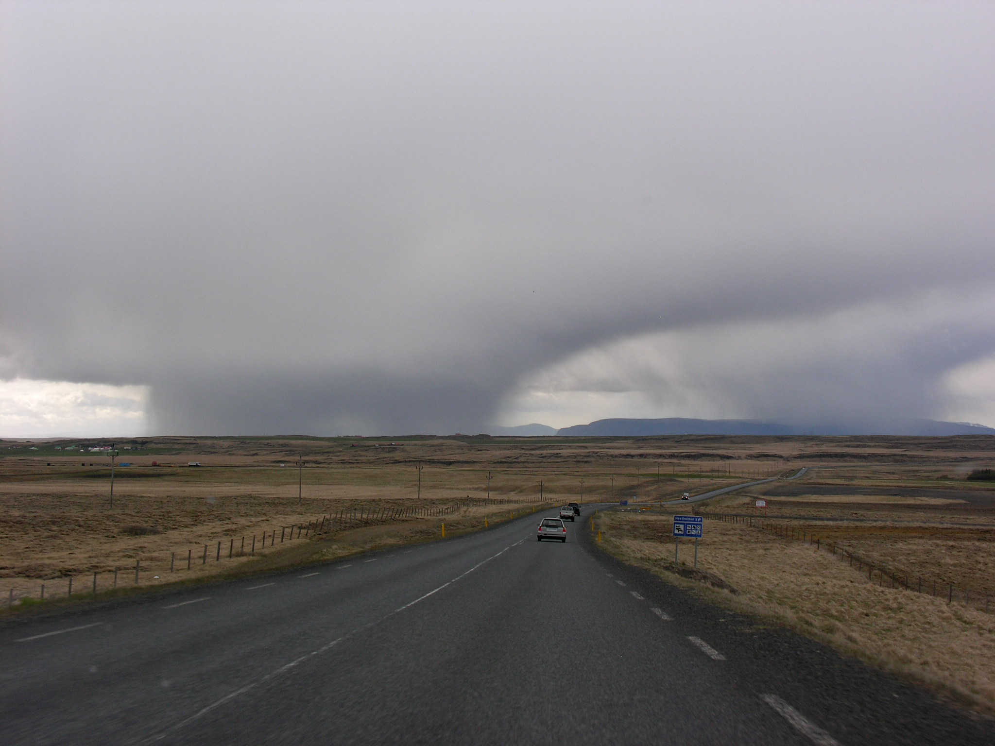 Iceland, Heavy downburst over Selfoss